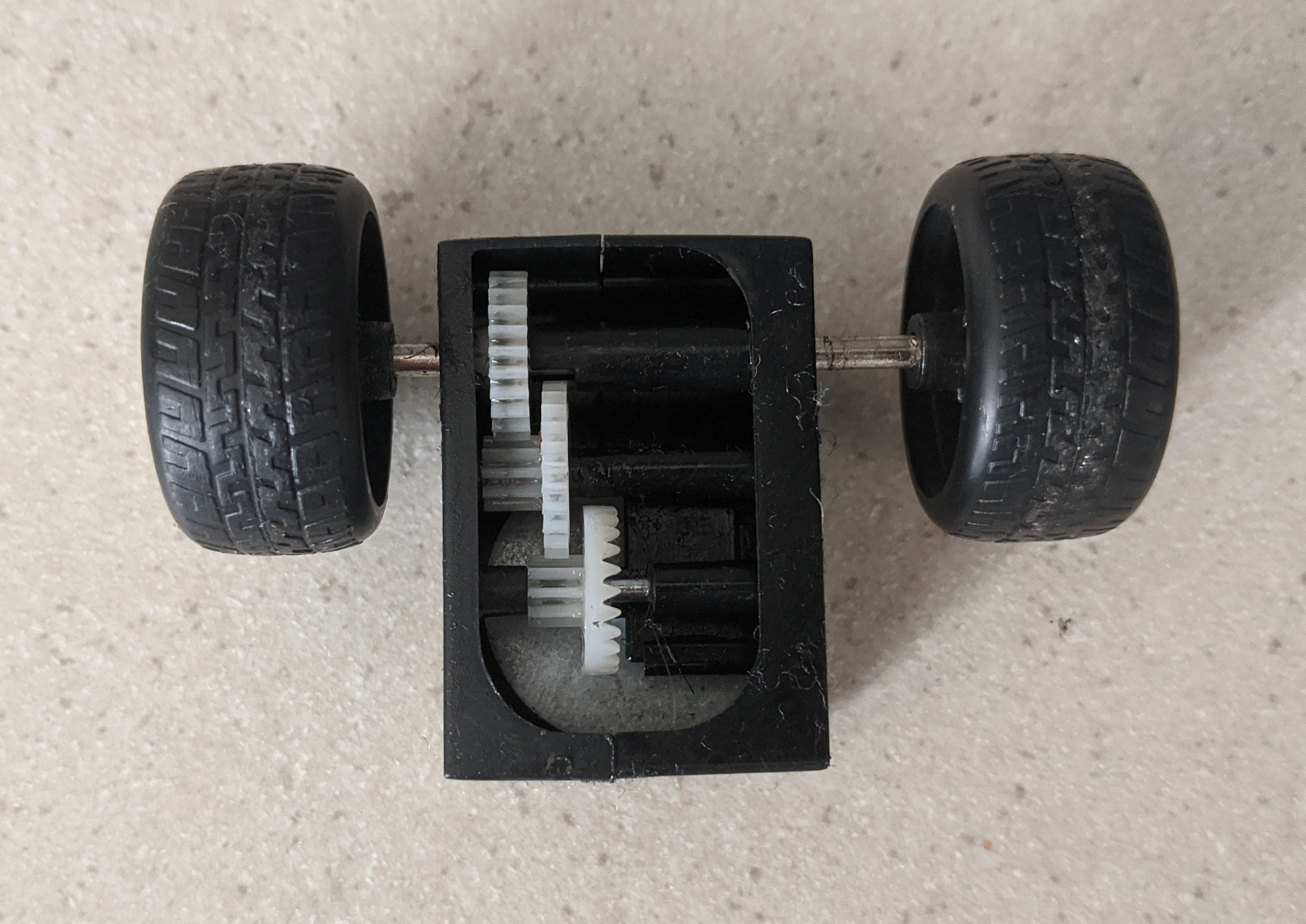 Inside a friction motor on a toy car. The drive wheels are connected via three gears to a flywheel which stores the kinetic energy and allows the car to continue moving forward after it is released.